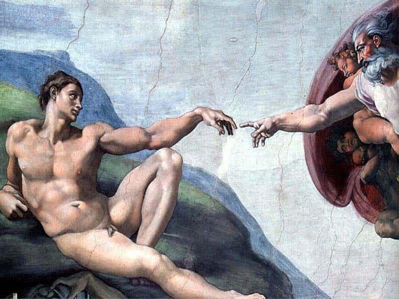 Creation of Adam